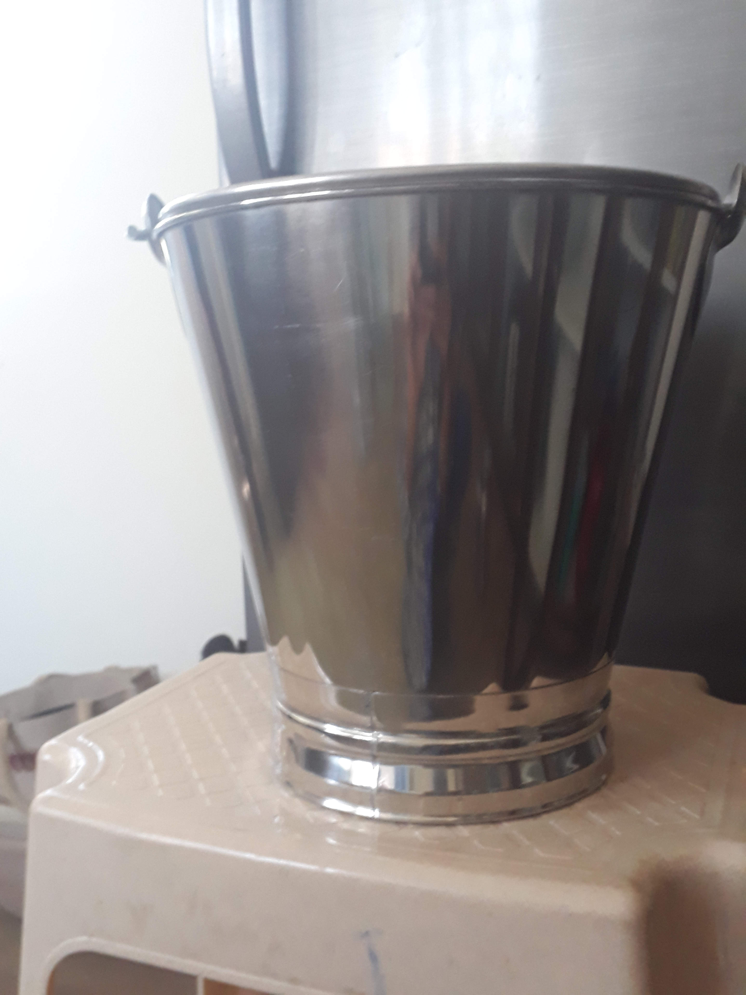 बादली